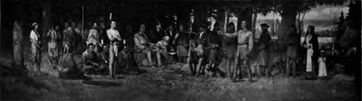 Mural: The First Trial in the County (1911), Mahoning County Courthouse, Youngstown, Ohio, Charles Yardley Turner, artist.